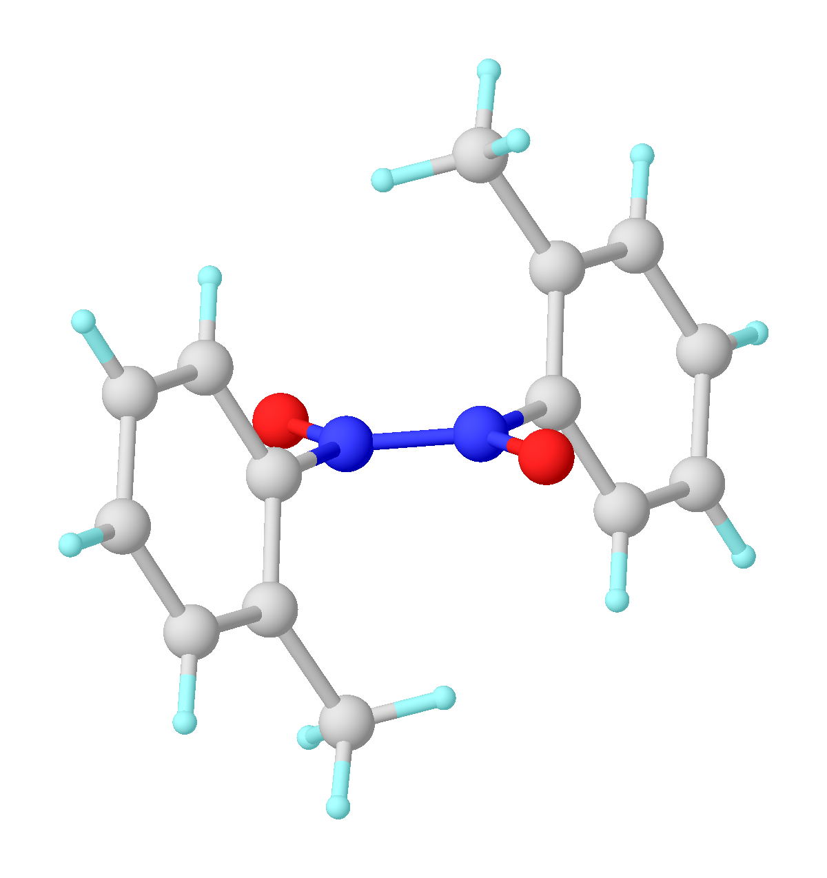 structure of 2-nitrosotoluene dimer from doi 10.1007/s10870-013-0489-8